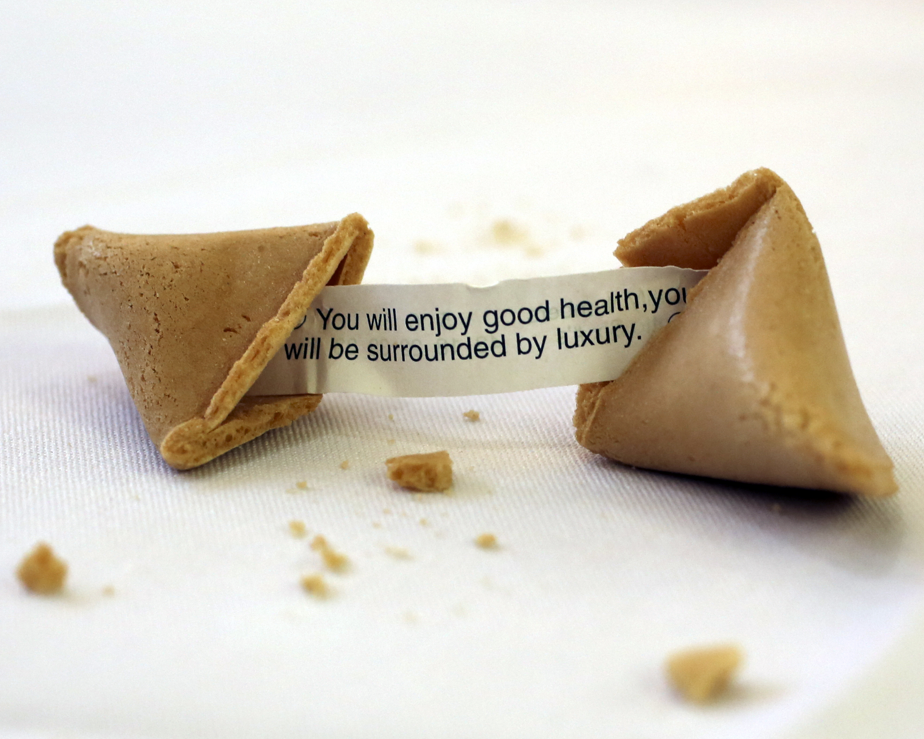 Men and women celebrate Pacific and Asian heritage during the Pacific Asian Heritage Celebration aboard Marine Corps Recruit Depot Parris Island, S.C., May 30, 2014. The Pacific Asian Heritage Celebration hosted a plethera of events relating to and displaying traditions, customs, and culture.